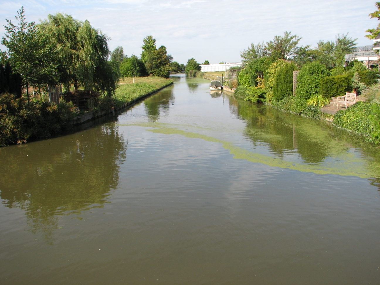 Gantel River (Westland, South Holland, Netherlands) at Holle Watering